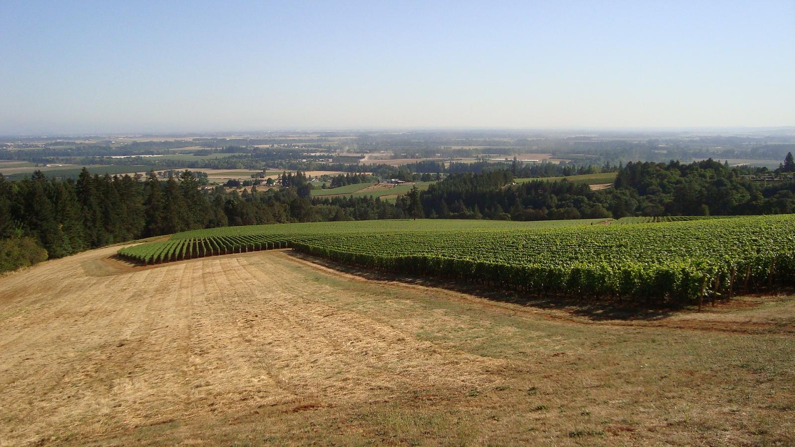 Pinot Noir grapes at Domaine Drouhin in the Willamette Valley wine region of the Dundee Hills